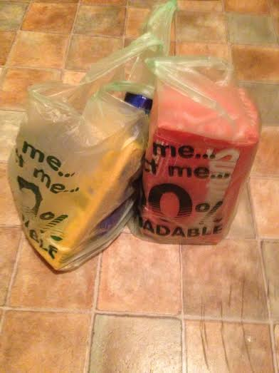 A typical donation of food to Glasgow Needy.